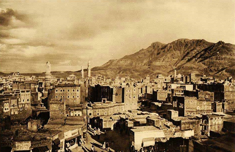 Sanaa in 1926